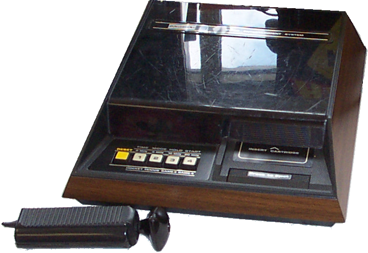 Fairchild Channel F I am the author and source of this photo. Taken from my personal collection of photos from my museum display at the 2004 Midwest Gaming Classic. This photo is free to use as long as credits to Martin Goldberg and/or Electronic Entertainment Museum (E2M), are maintained.